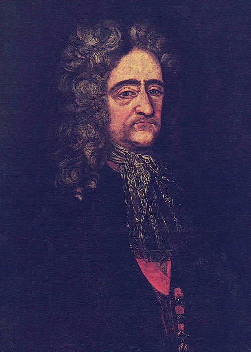 Juan Manuel Fernández Pacheco (1650-1725), marquis of Villena and first director of the Real Academia Española.